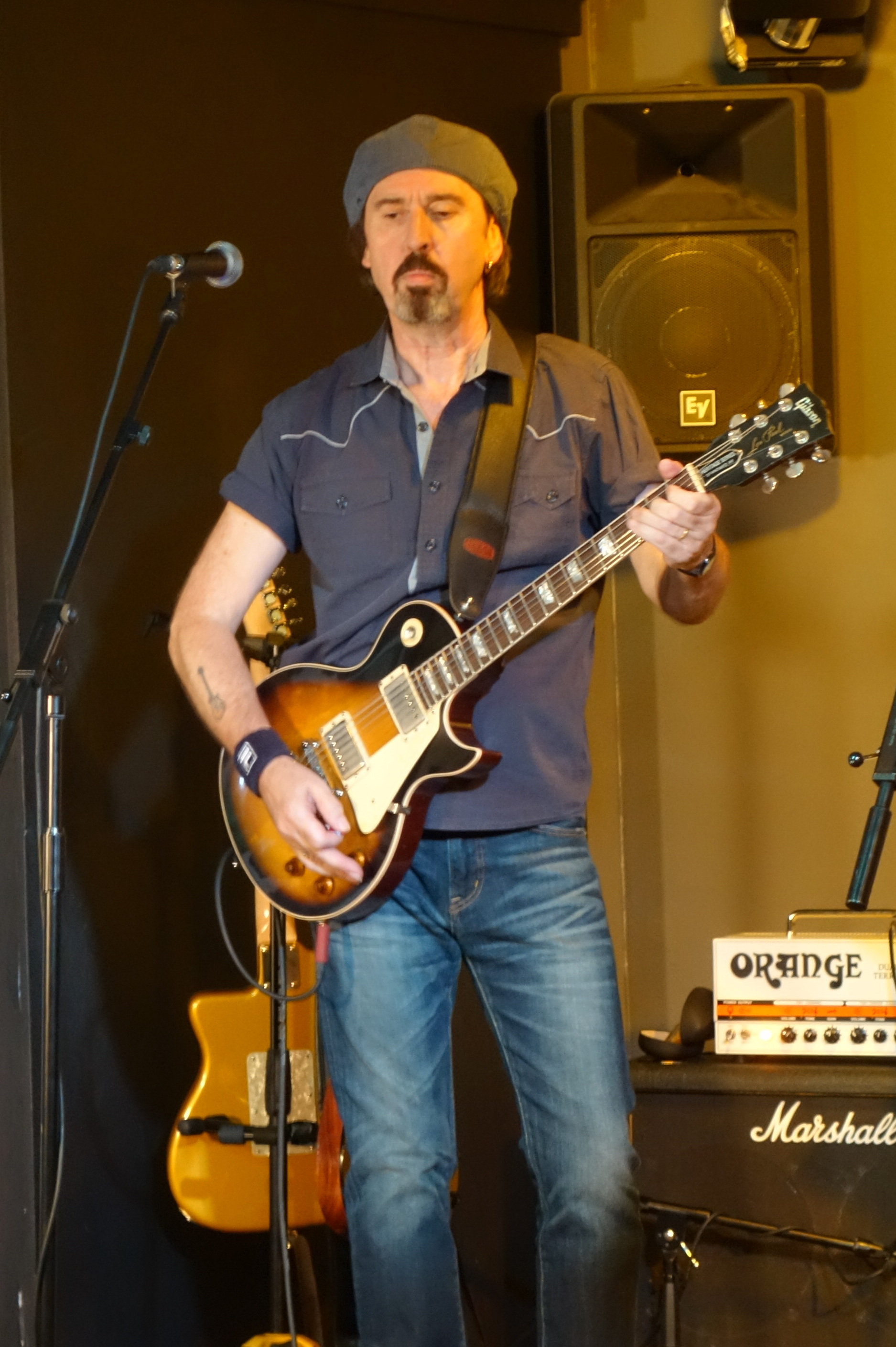 A cropped version of File:Micky Moody (14709865671).jpg